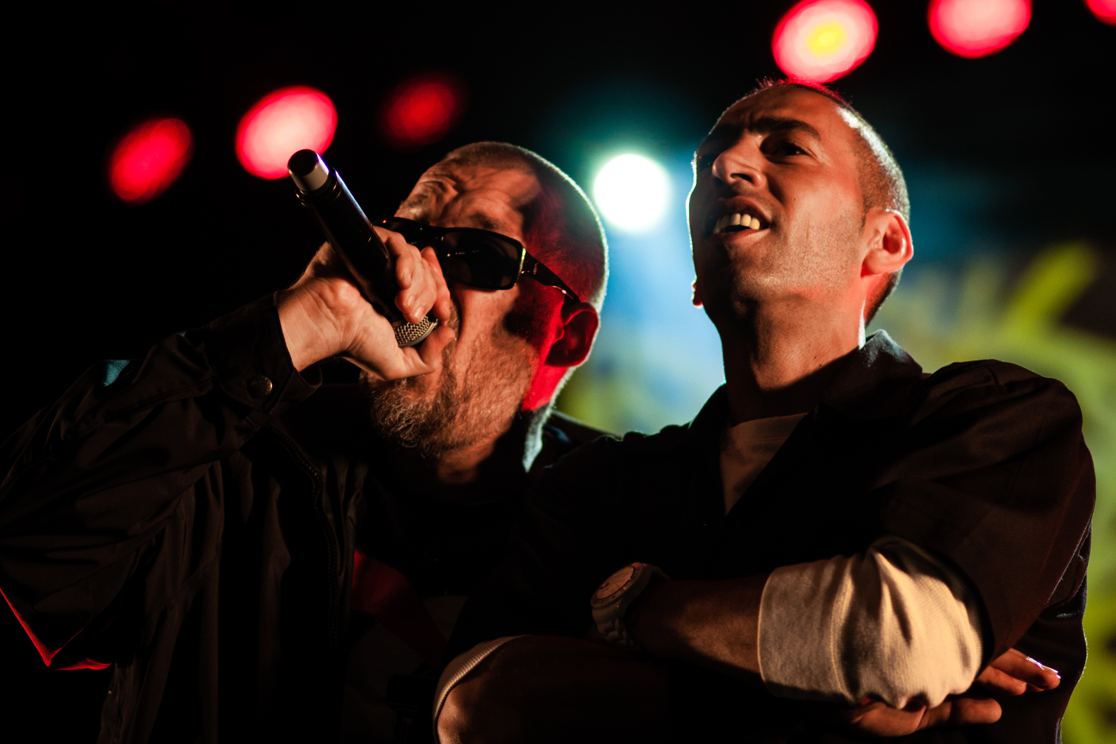 Live from Place des Palais Follow me on facebook Twitter : @didyPhotography All the photographies I've made are now under CC0 (Creative Commons Zero) CC0 - learn more To the extent possible under law, Eddy BERTHIER has waived all copyright and related or neighboring rights to Fête de la musique 2012 - Bruxelles - De Puta Madre. This work is published from: France.